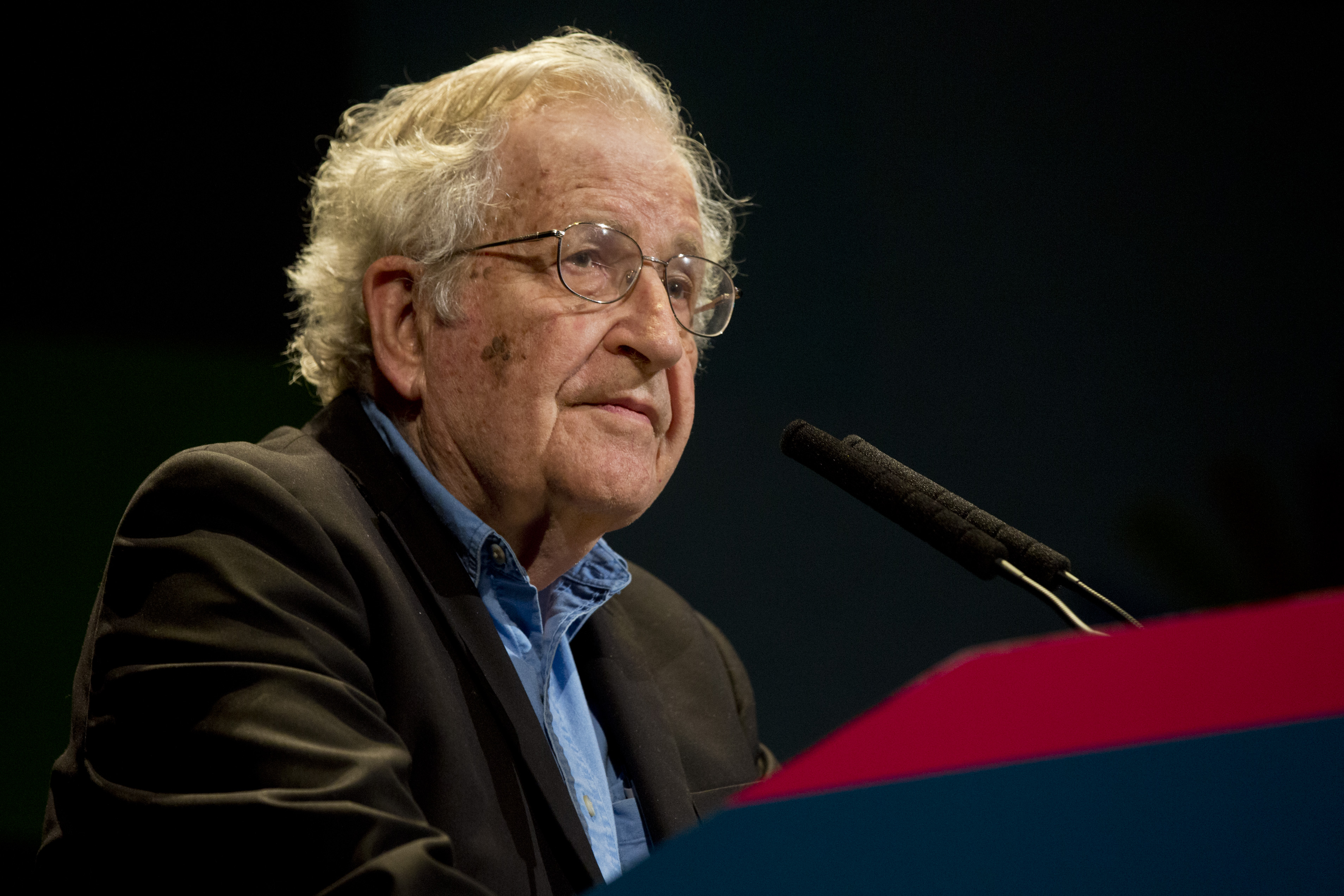 Noam Chomsky speaking at the International Forum for Emancipation and Equality in Buenos Aires, Argentina, on March 12, 2015. The conference was organized by the Argentinian Ministry of Culture of the Nation through the Secretariat of Strategic Coordination for National Thought.